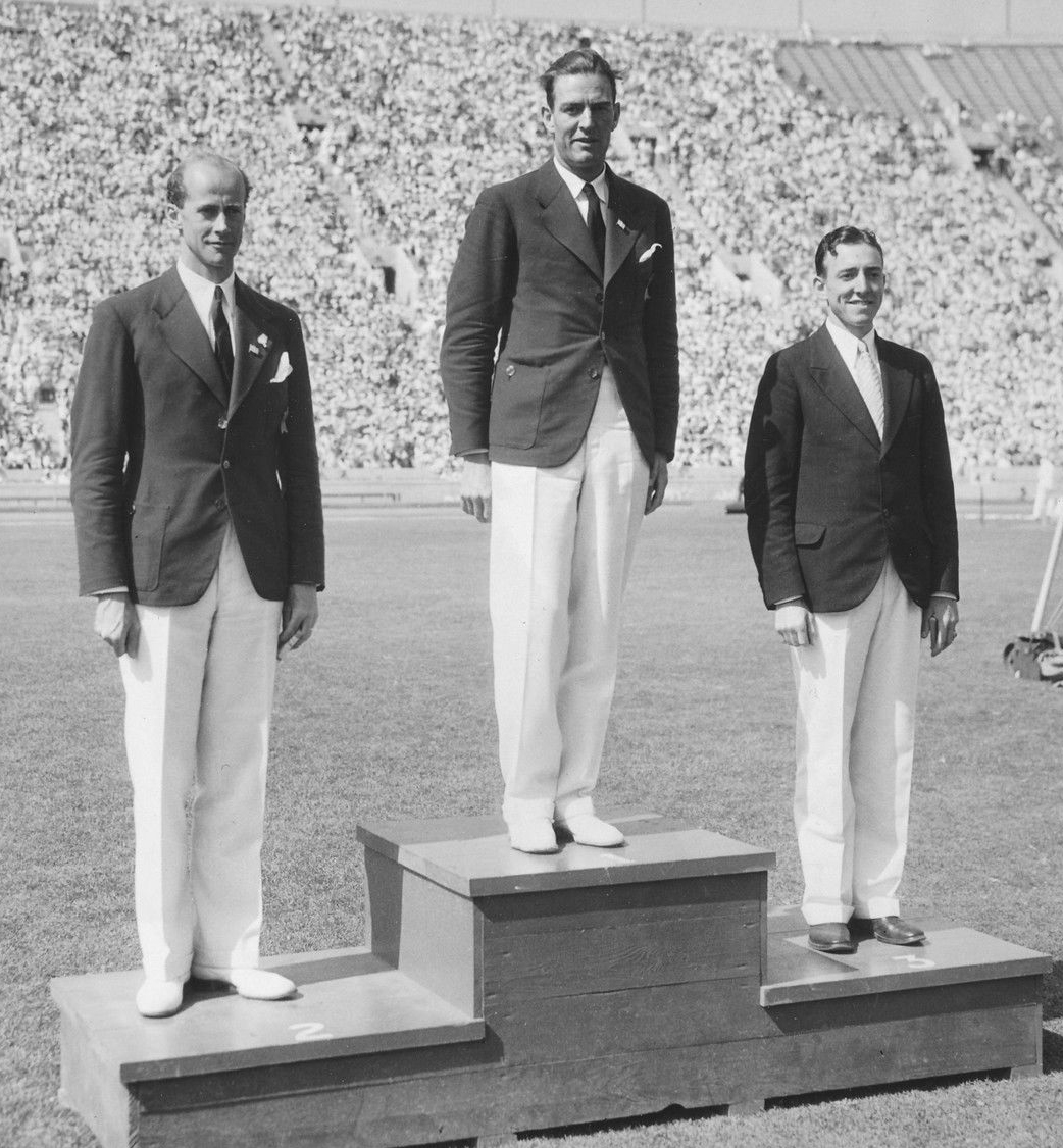 1932 OLYMPIC PENTATHLON WINNERS Vintage Medal Stand Photo